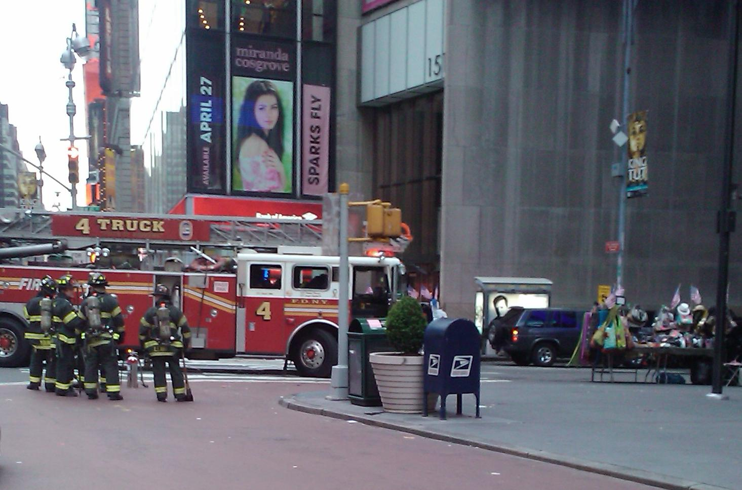 Crop of File:Times sq 2010 05 01 18.55.jpg a snapshot taken at 6:55, 2010-05-01, of the suspected car bomb in Times Square, Manhattan. Taken right in front of the Marriott, looking south. Press says the attempted attack took place at 6:38. My family visiting from out of town strolled in ~6:45, fire and police began blocking off area ~ 6:50, with no explanation. The suspect suv is blue/black, on the right, with hazards on.